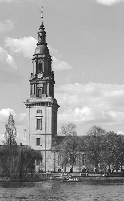 Title: Potsdam, Heiligengeistkirche (Heiliggeistkirche) Factual corrections and alternative descriptions are encouraged separately from the original description. Additionally errors can be reported at this page to inform the Bundesarchiv. Original historic description: Potsdam.- Heiligengeistkirche (Heiliggeistkirche)